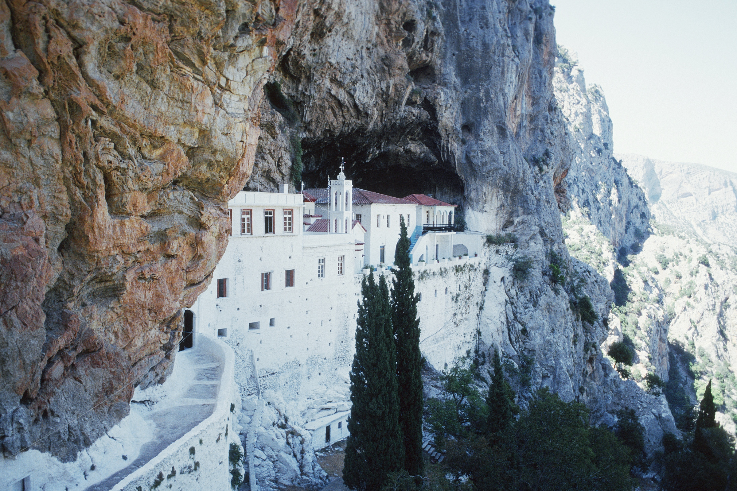 Monastery Agiou Nikolaou Sintzas near Leonidi in Arcadia. (Scan from Slide)